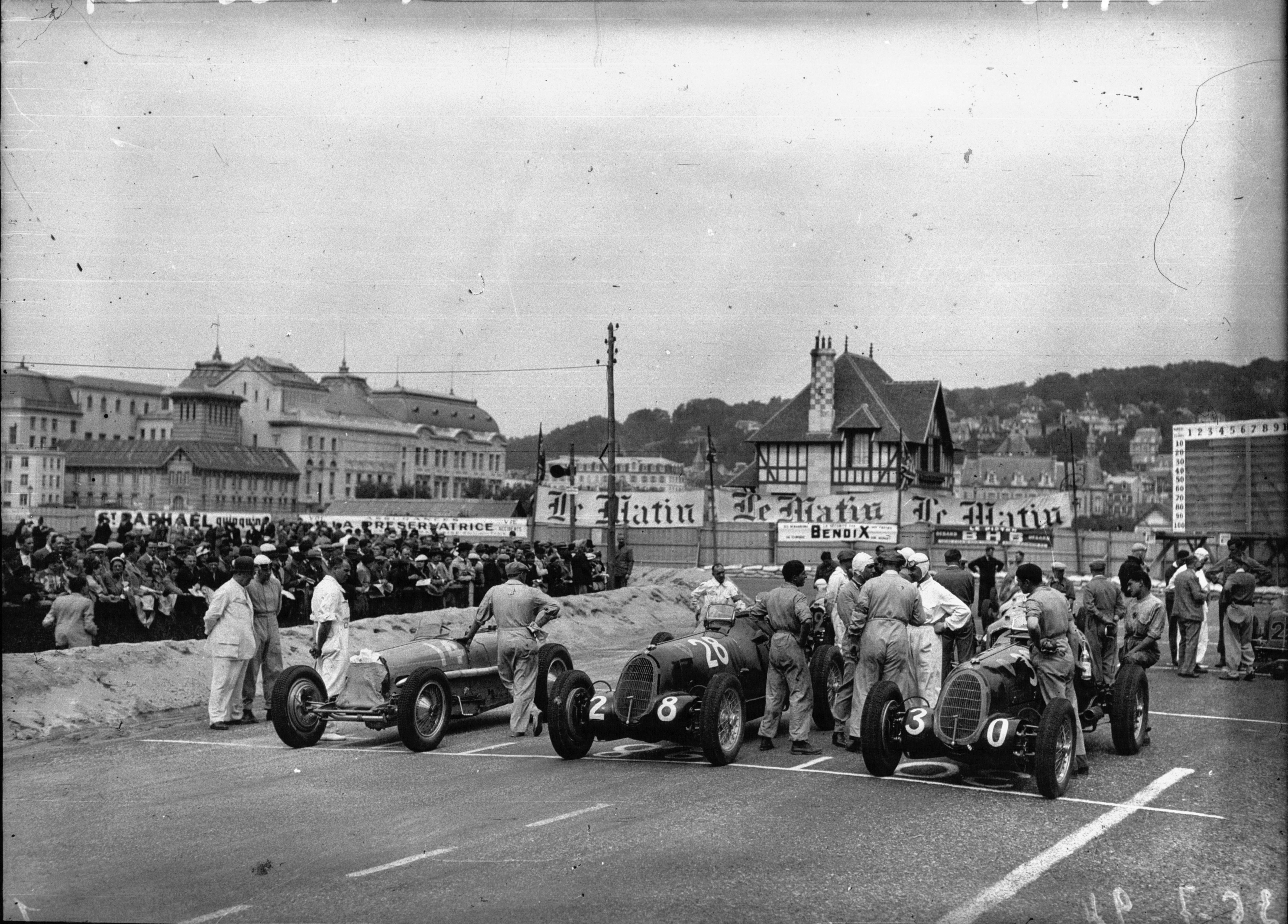 Grid of the 1936 Deauville Grand Prix